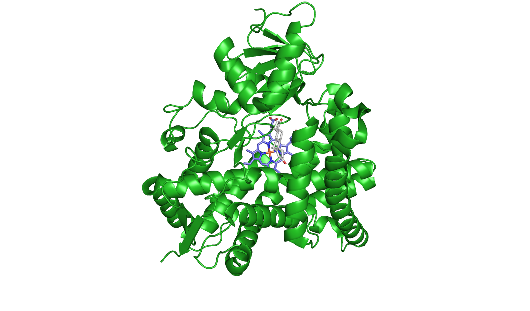 Structure of human placental aromatase rendered with Pymol from PDB file 3EQM.